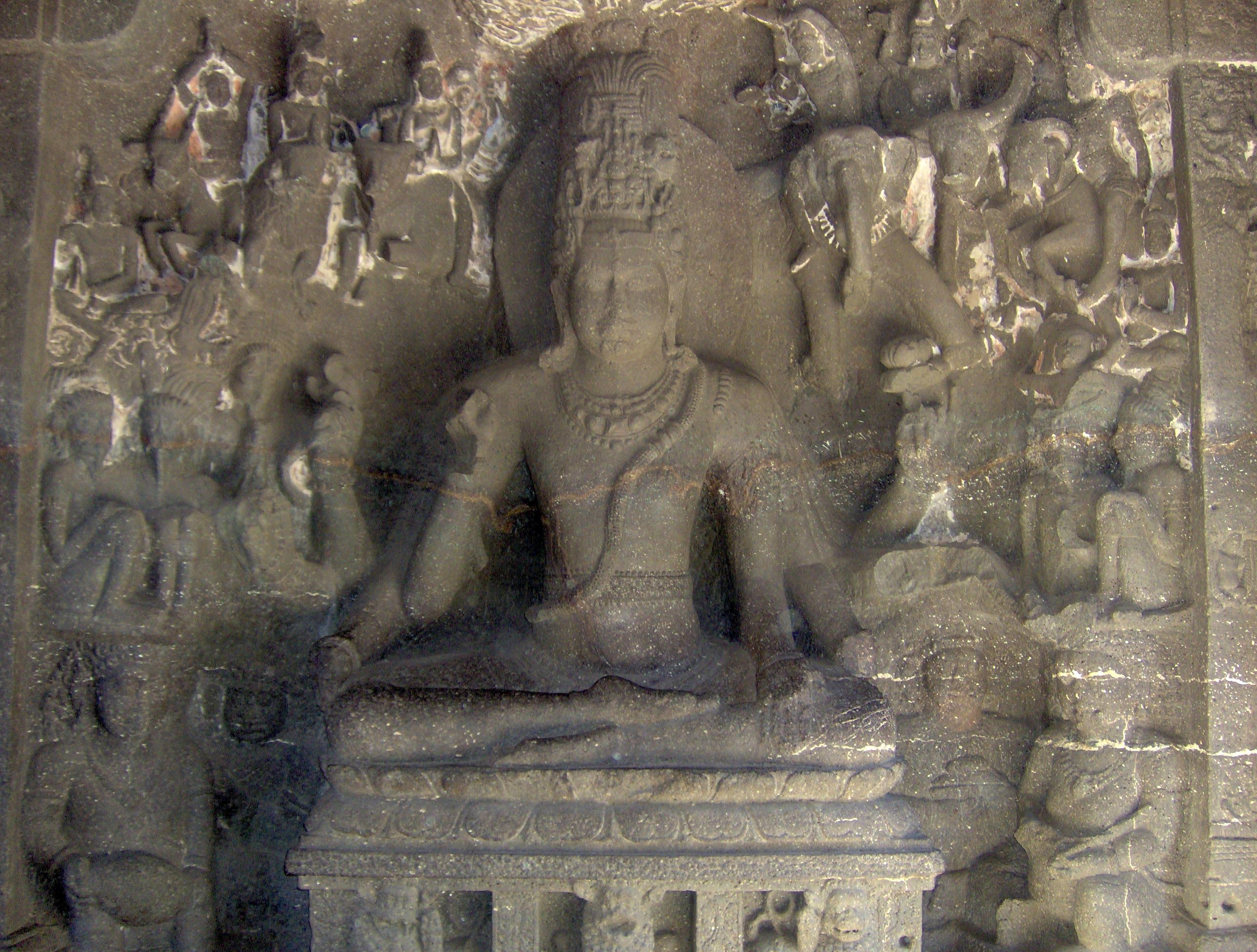 A Shiva panel from the Kailash temple (Cave 16), Ellora. QuartierLatin1968 04:30, 12 December 2005 (UTC)